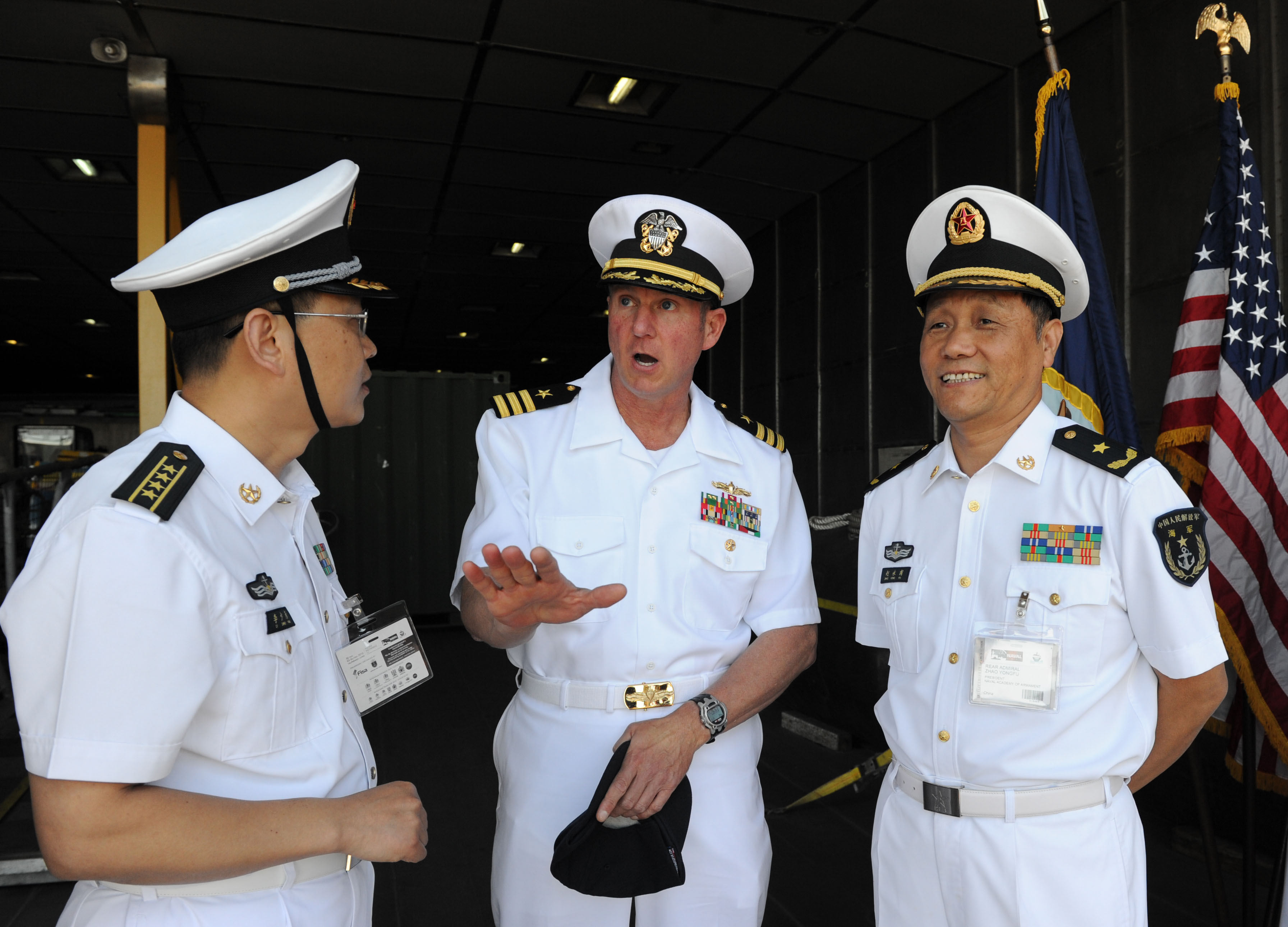 VALPARAISO, Chile (Dec. 1, 2010) Cmdr. Mark Becker, center, mission commander of Southern Partnership Station 2011, speaks with People's Liberation Army Navy Rear. Adm. Zhao Yongfu, right, president of the Naval Academy of Armament, and his interpreter, Senior Capt. Lia Shaoyan, on the quarterdeck of High Speed Vessel Swift (HSV 2). Yongfu and nine members of the Chinese navy delegation embarked aboard Swift for a tour of Puerto Valparaiso while visiting the country for Expo Naval 2010. (U.S. Navy photo by Mass Communication Specialist 1st Class Jeffery Tilghman Williams/Released)